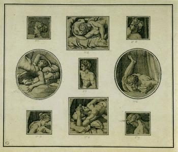 fragments of surviving Raimondi edition of I Modi